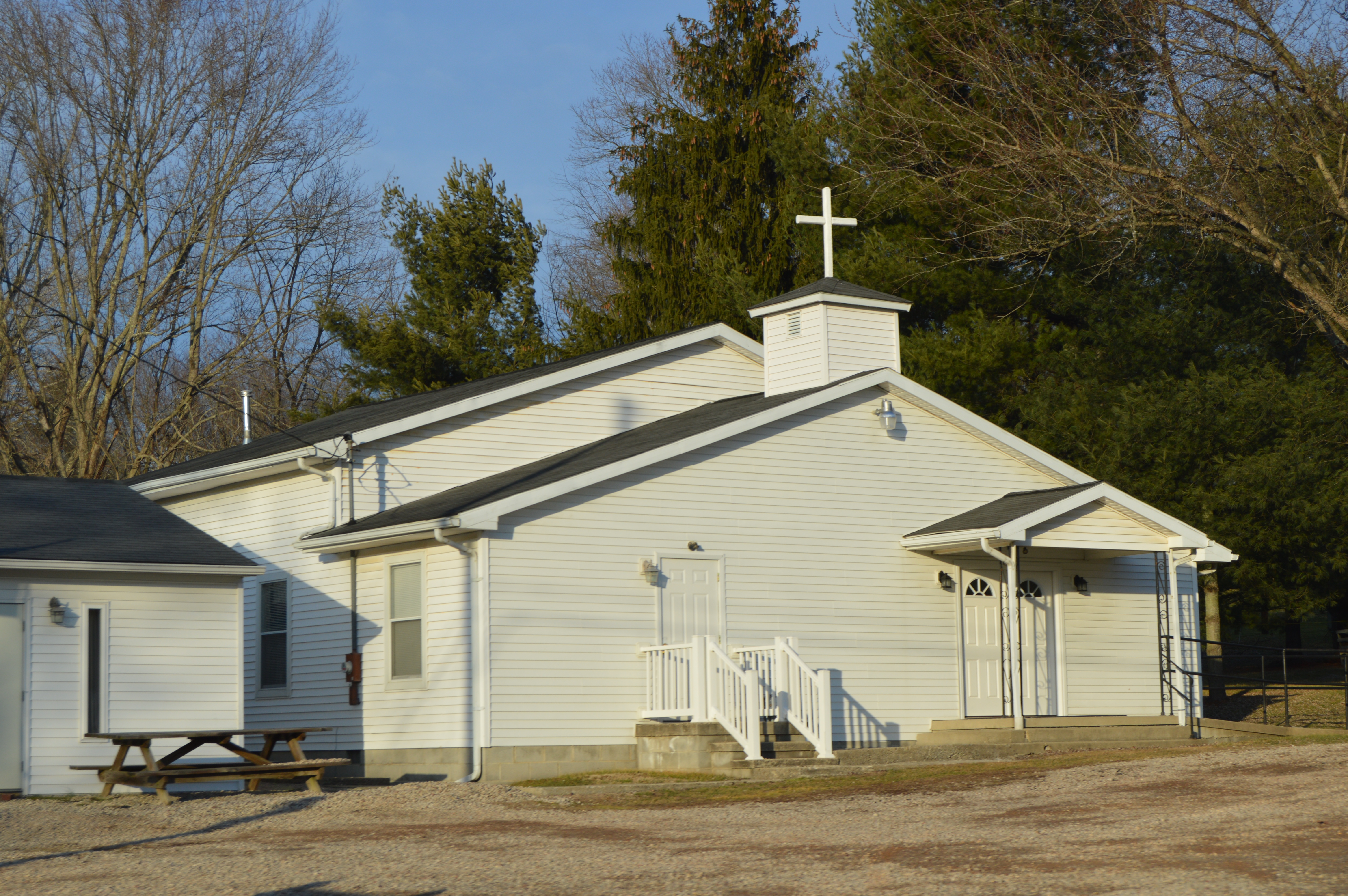 Front of the Glen Roy Community Freewill Baptist Church, located on the northern side of State Route 93 just west of Glen Roy, Ohio, United States.